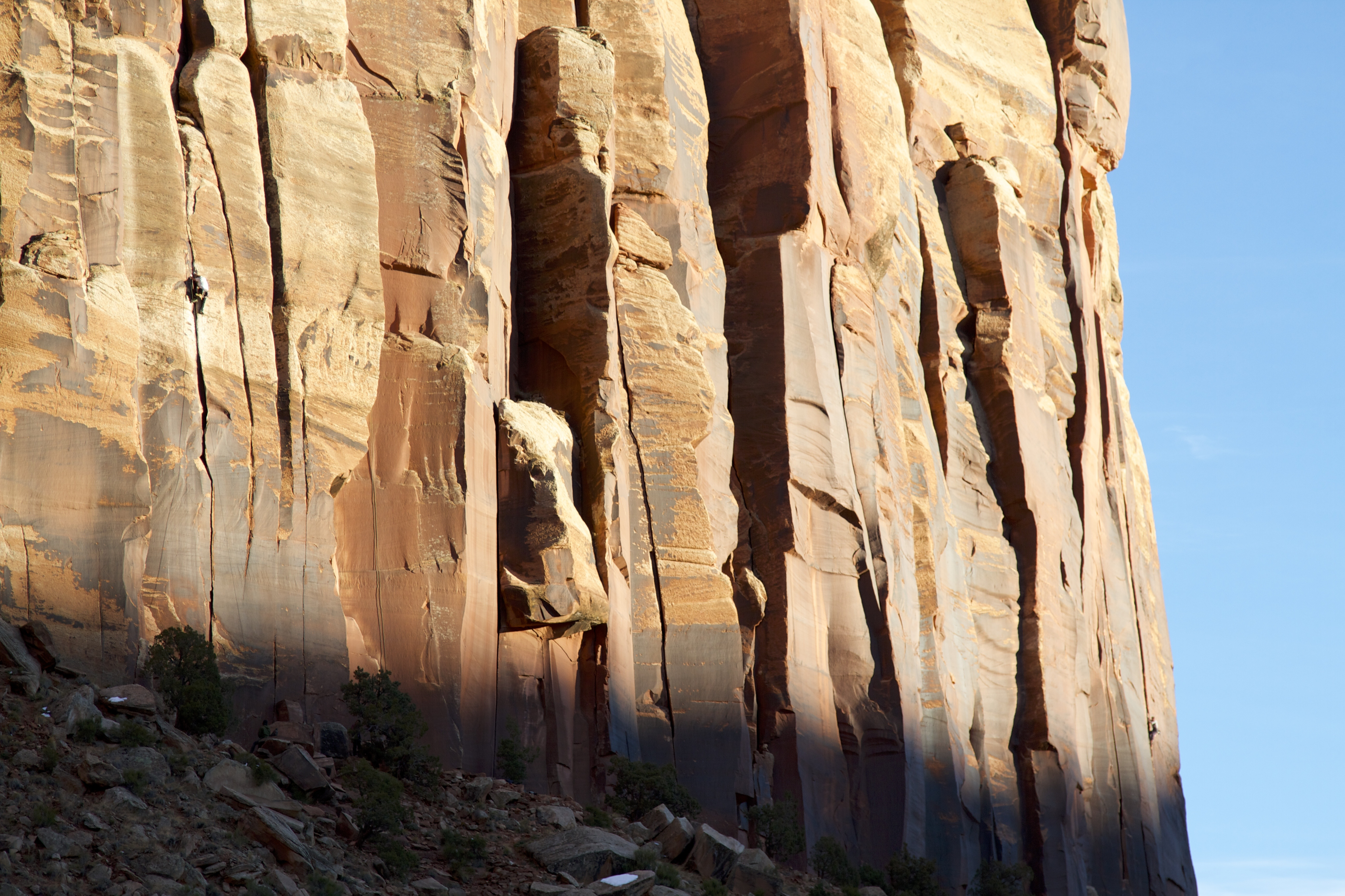 Climbing at Indian Creek climbing area in in Canyonlands near Moab, Utah